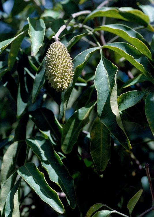 Fruit and foliage of Flindersia xanthoxyla in the Waite Institute Arboretum, Adelaide, South Australia